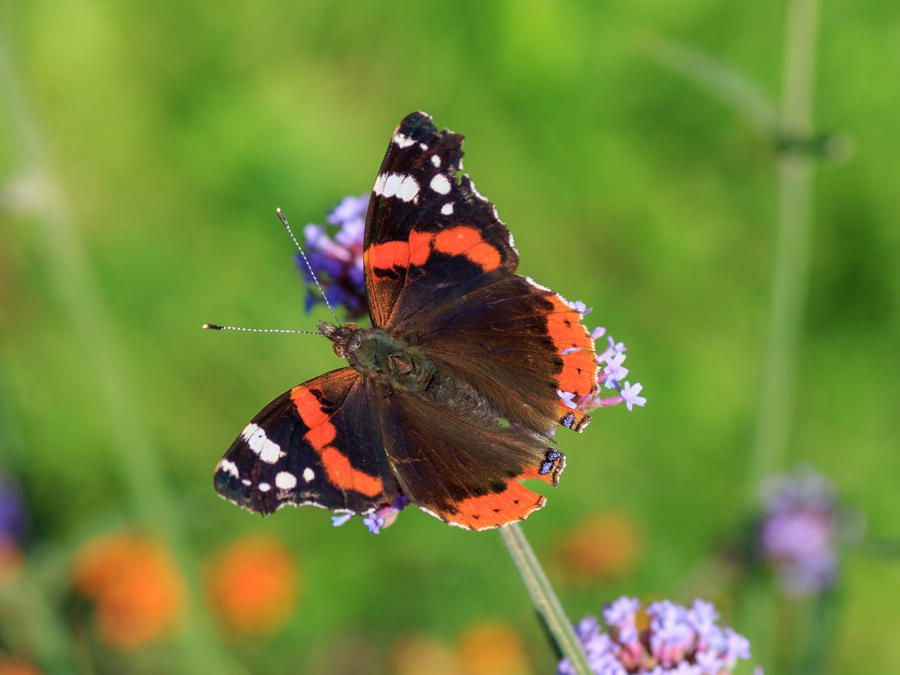 Berlin-Marzahn Gardens of the World: a Red Admiral